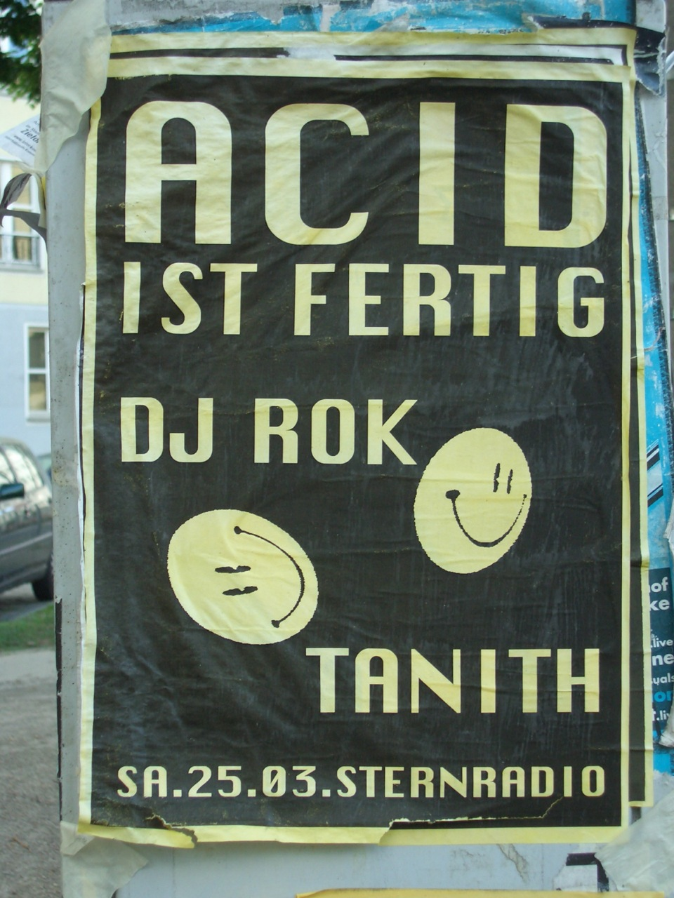 Berlin, 2006 "Acid ist fertig", Party in Sternradio, Berlin, with DJ Tanith and Rok